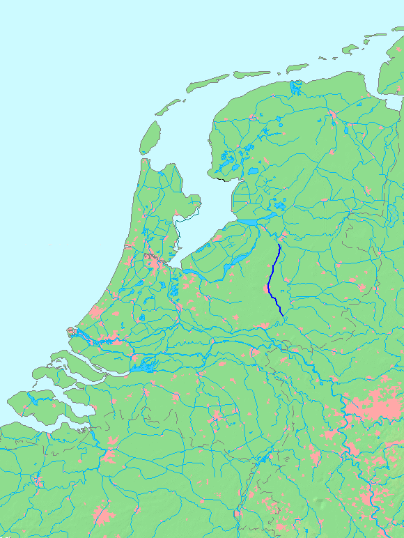 Location of a waterway (river/canal) in the Netherlends